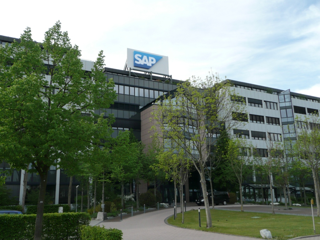 SAP Headquarter, Building WDF01.